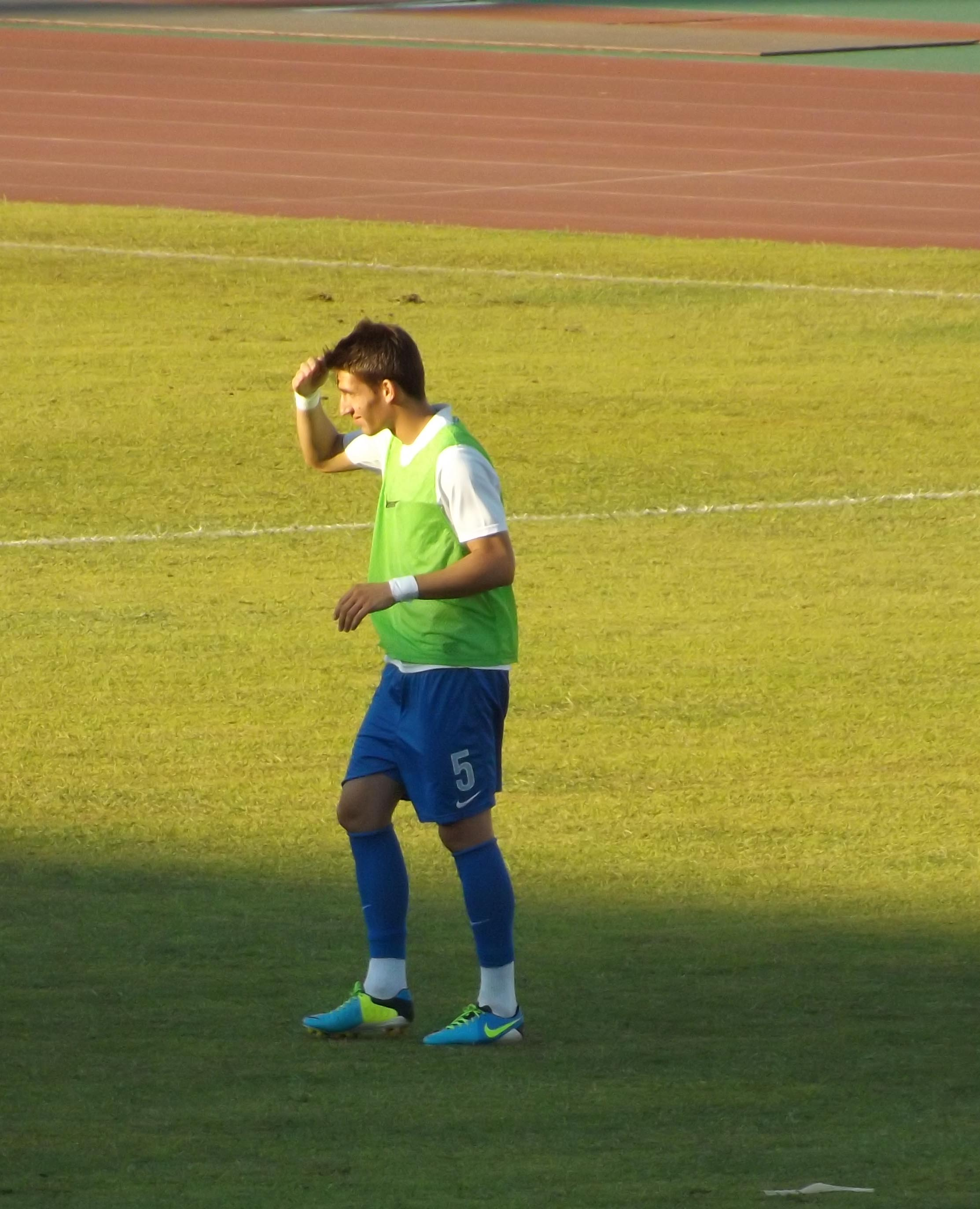 Stefanos Kragiopoulos during a warm up session for Iraklis.